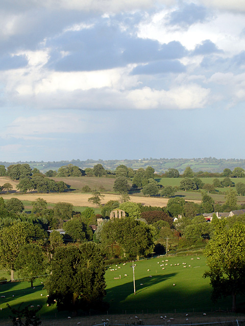 View from towards Croxden Abbey. Taken standing on Quarry Bank looking towards Croxden Abbey SK065397.